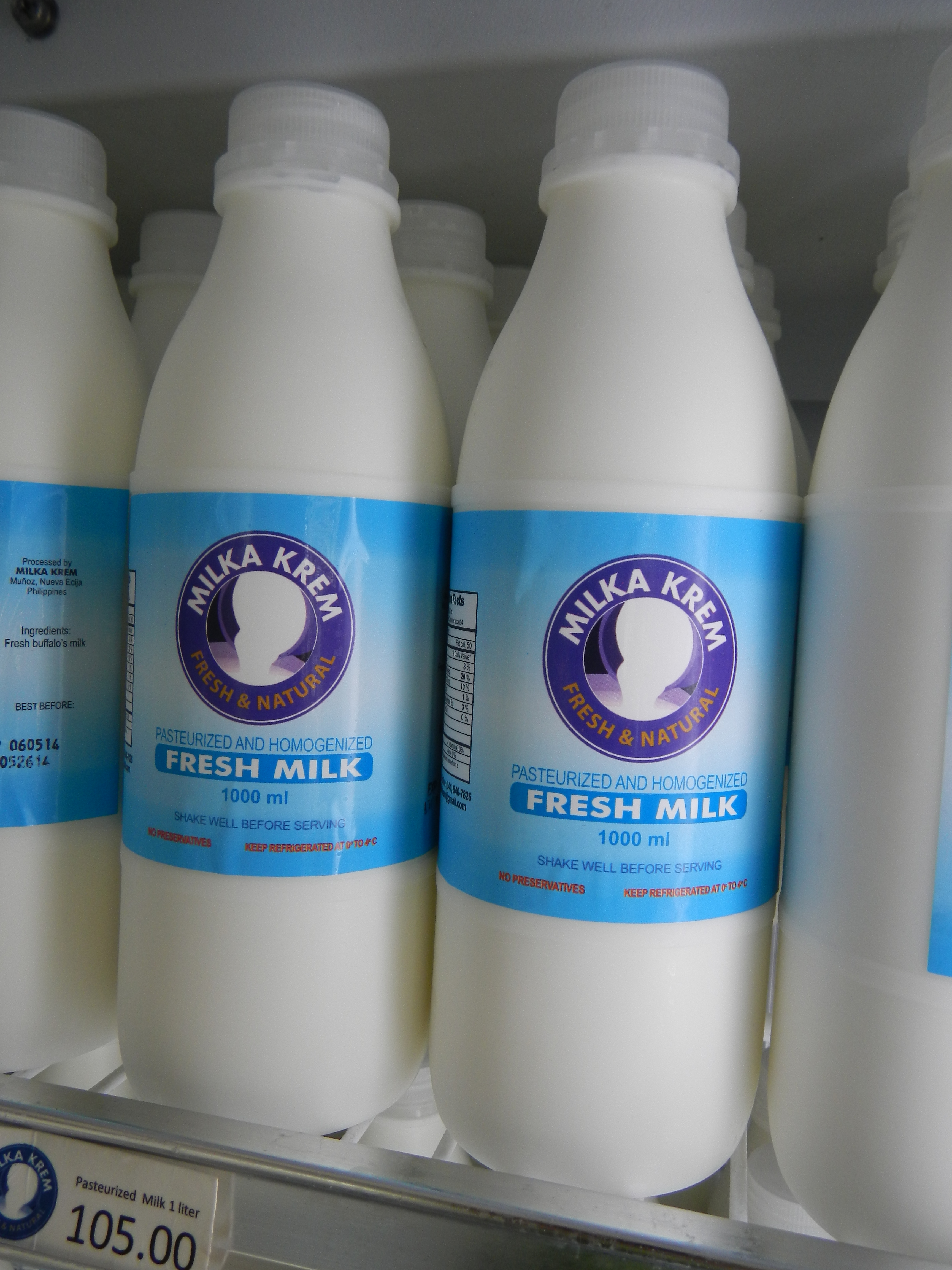 Milka Crem, Philippine Carabao Center (CLSU, Science City of Muñoz) Philippine Carabao Center part of CLSU:Central Luzon State University (CLSU, Muñoz, Nueva Ecija, Science City of Muñoz, Nueva Ecija, Philippines).